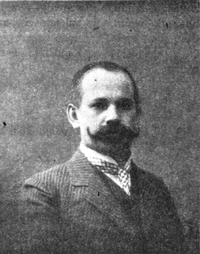 Juliusz Isaak, Polish entomologist